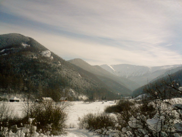 Belianska dolina, Lesser Fatra, Slovakia